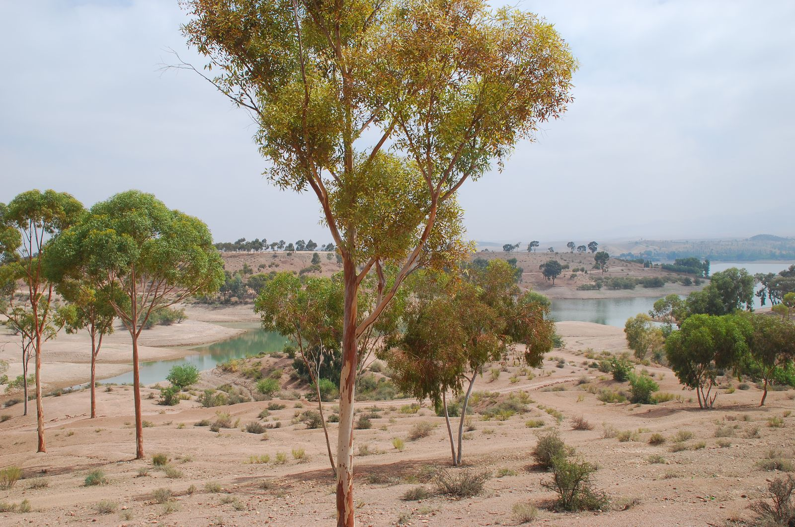 Lalla Takerkoust south of Marrakech, reservoir